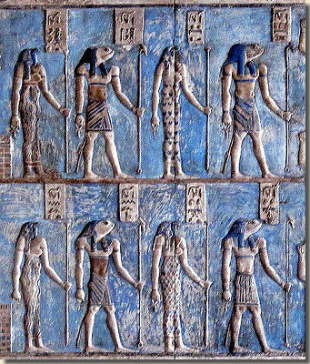 Relief in the Hathor temple at Dendera representing the Ogdoad: Top right: Nu and Nut; top left: Hehu and Hehut; bottom right: Kek and Keket; bottom left: "Ni and Nit" (for Qerh and Qerhet).